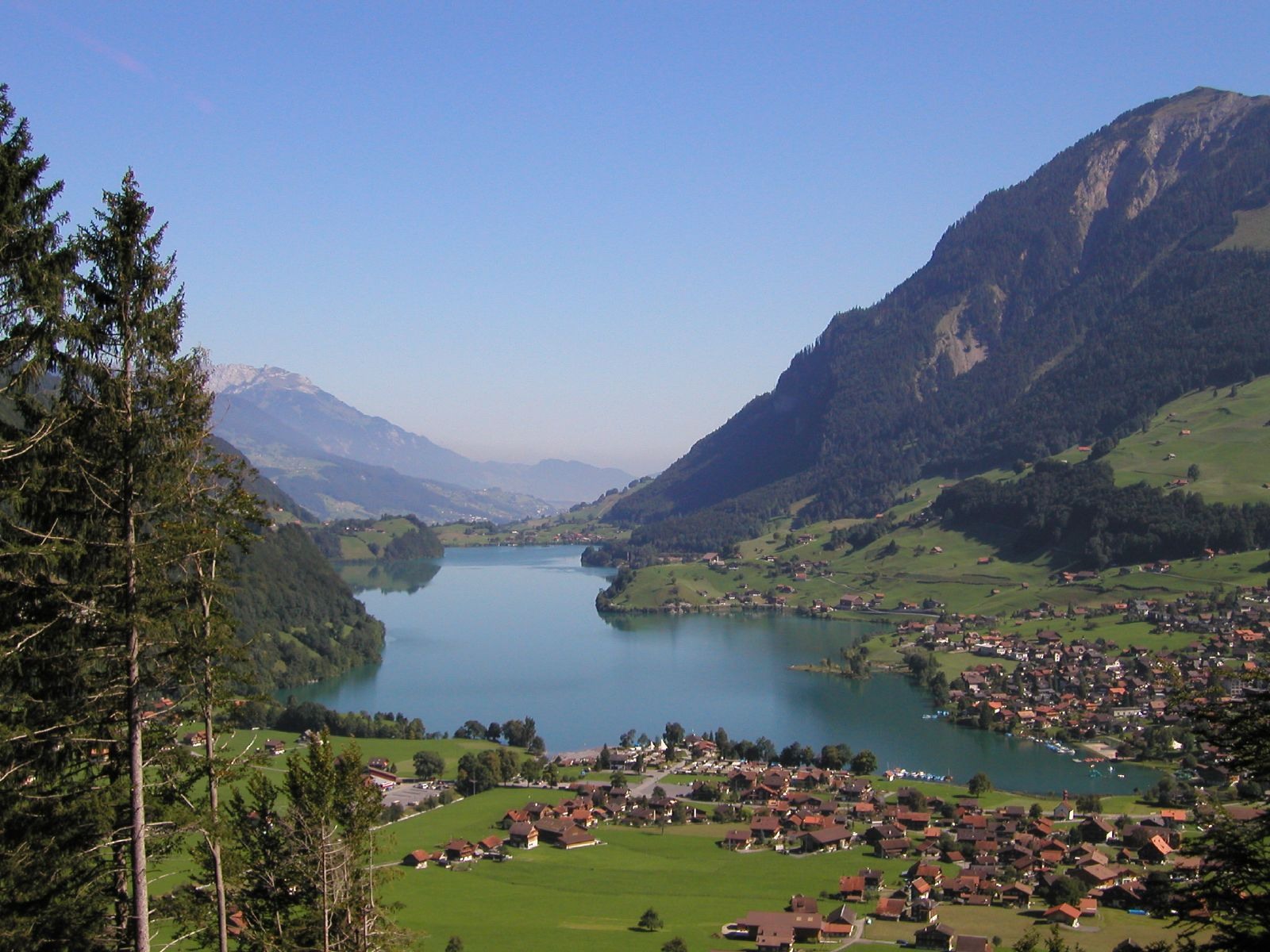 A view of Lungerersee from the Brünigpass, Switzerland.